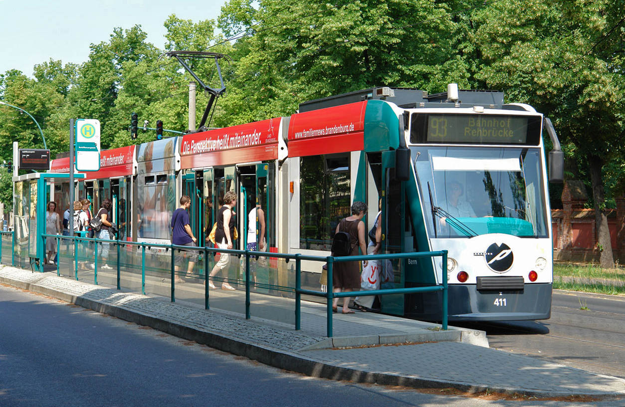 Combino Tram (Car 411) in Potsdam, Germany at the Stop Schiffbauergasse